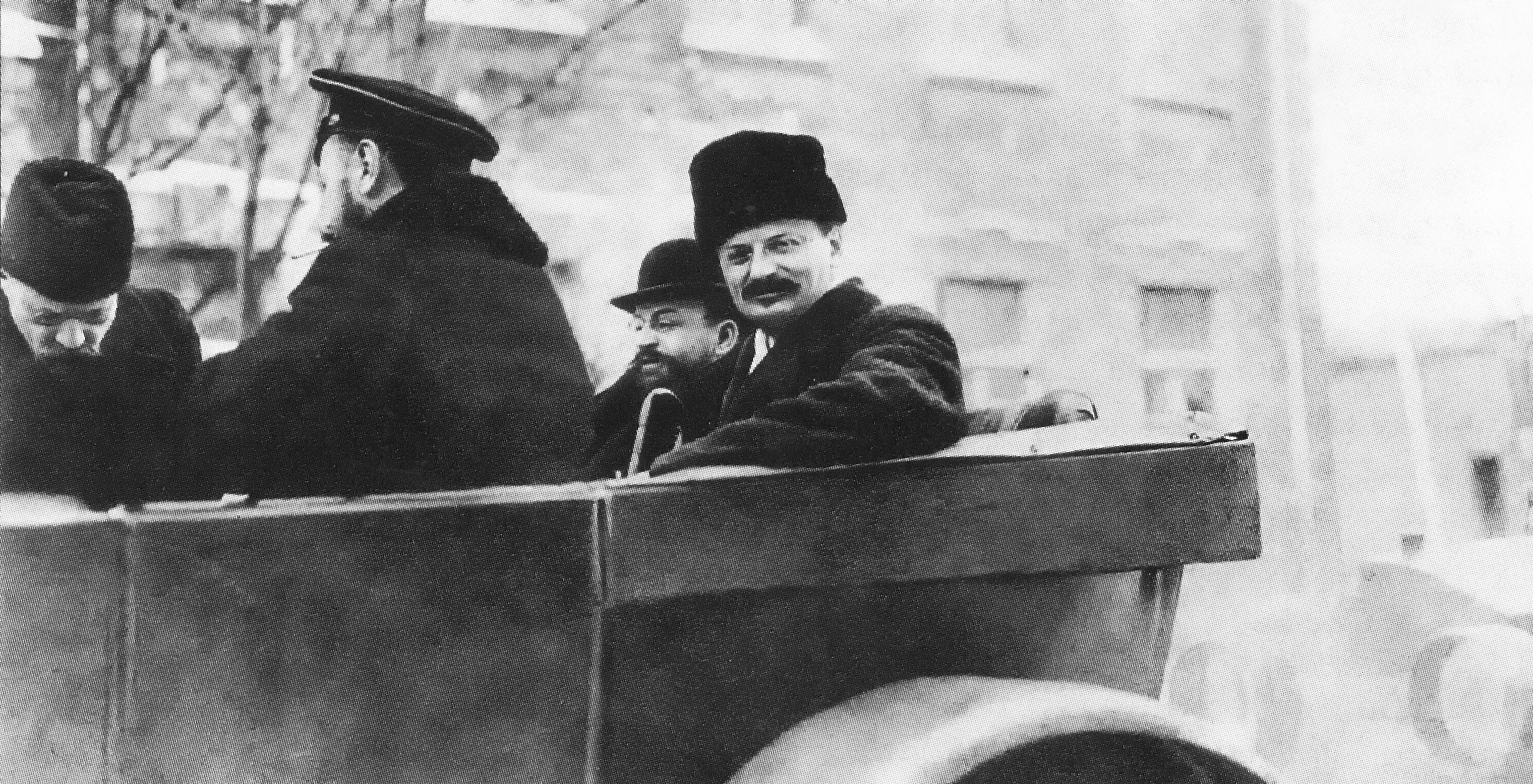 Leon Trotsky in Petrograd, winter 1918\1919.